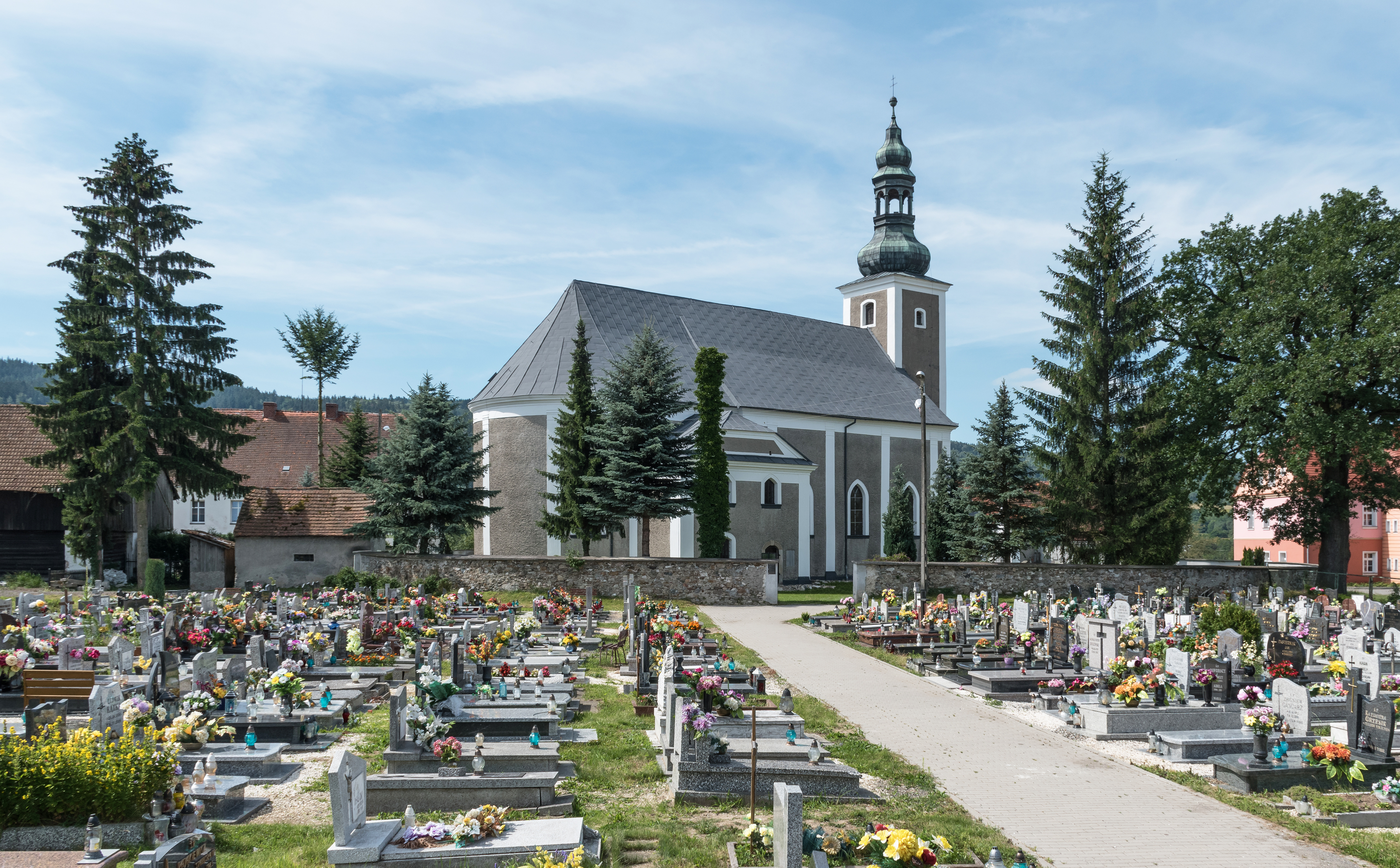 Saint Andrew church in Trzebieszowice